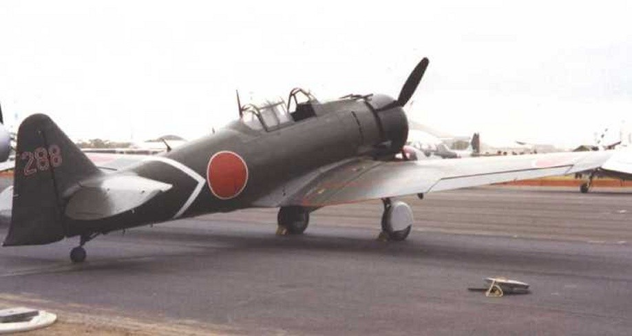 AT-6 modified to resemble a Mitsubishi Zero